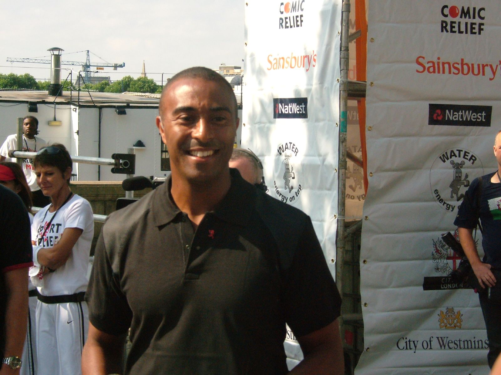 He didn't do any of those cool moves from Strictly Come Dancing unfortunately.